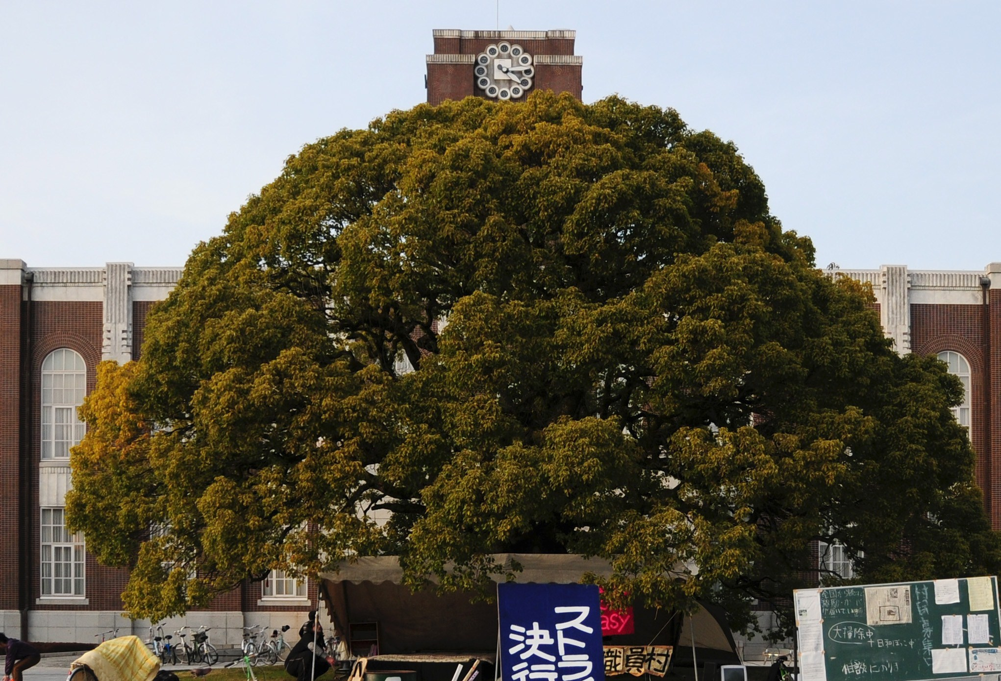 Camphor tree on Kyoto University's Yoshida campus, Japon